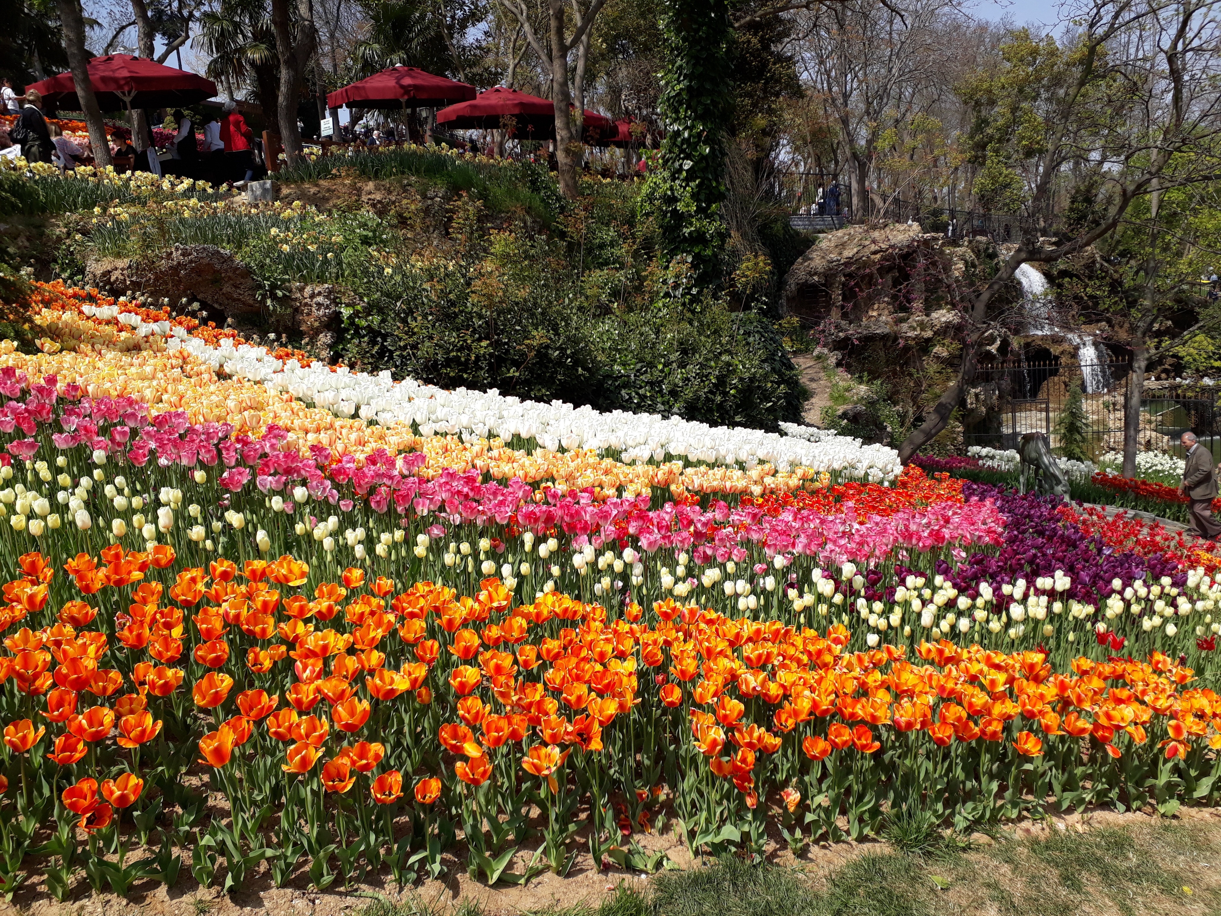 Tulip Festival is held annually to commemorate the arrival of the spring season at Emirgan Park, Istanbul every year in April. This photo was taken on April 2018.